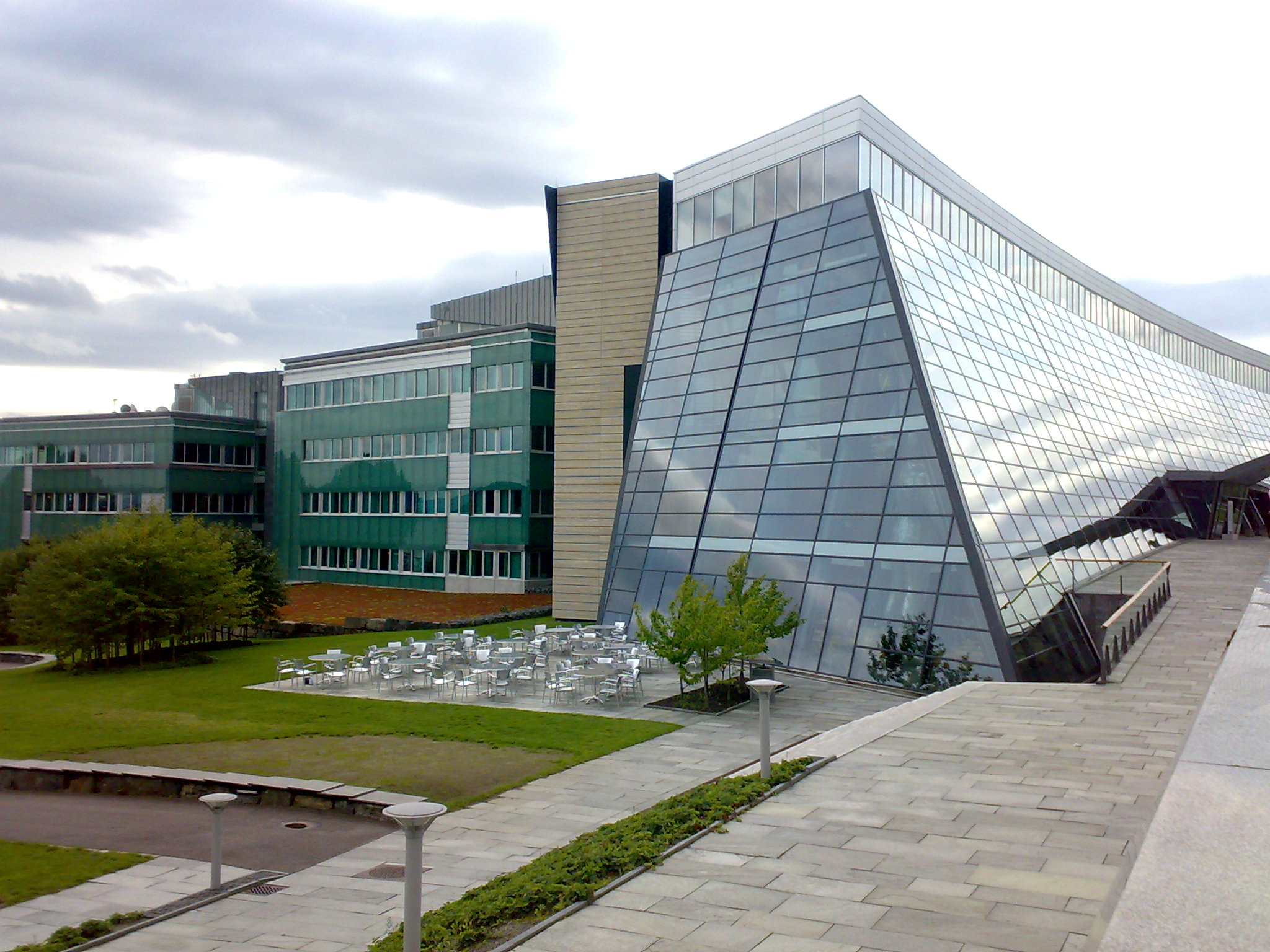 Telenor headquarters, Fornebu (Norway). This particular sections houses the daughter companies Telenor Broadcast, and Telenor Satellite Broadcasting.